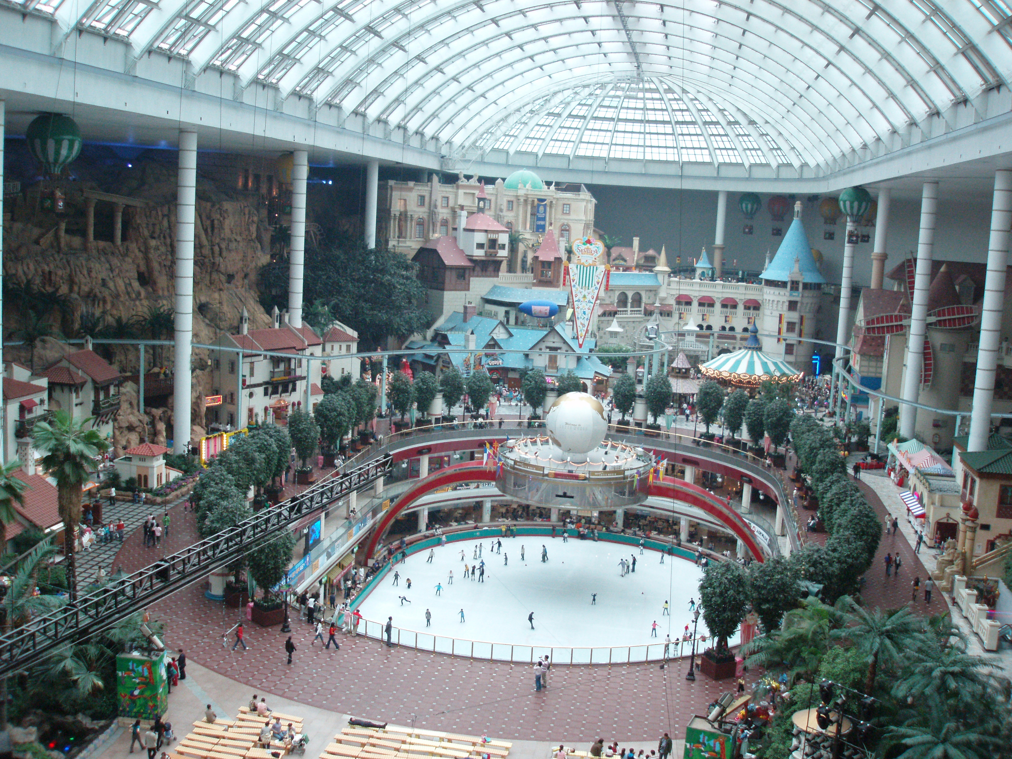 Lotte world, Jamsil, Seoul